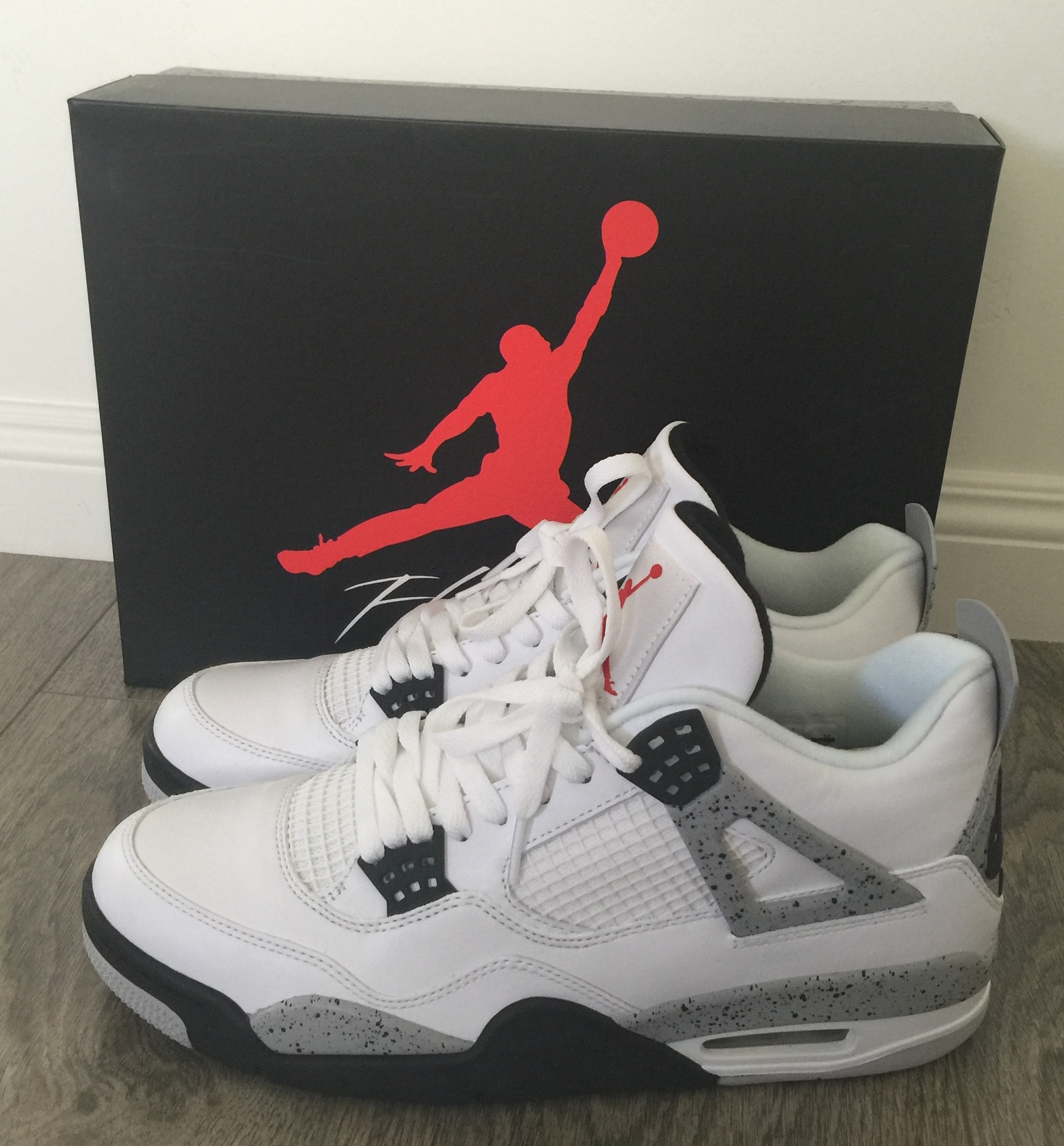 Nike Air Jordan IV, (White Cement Colorway)